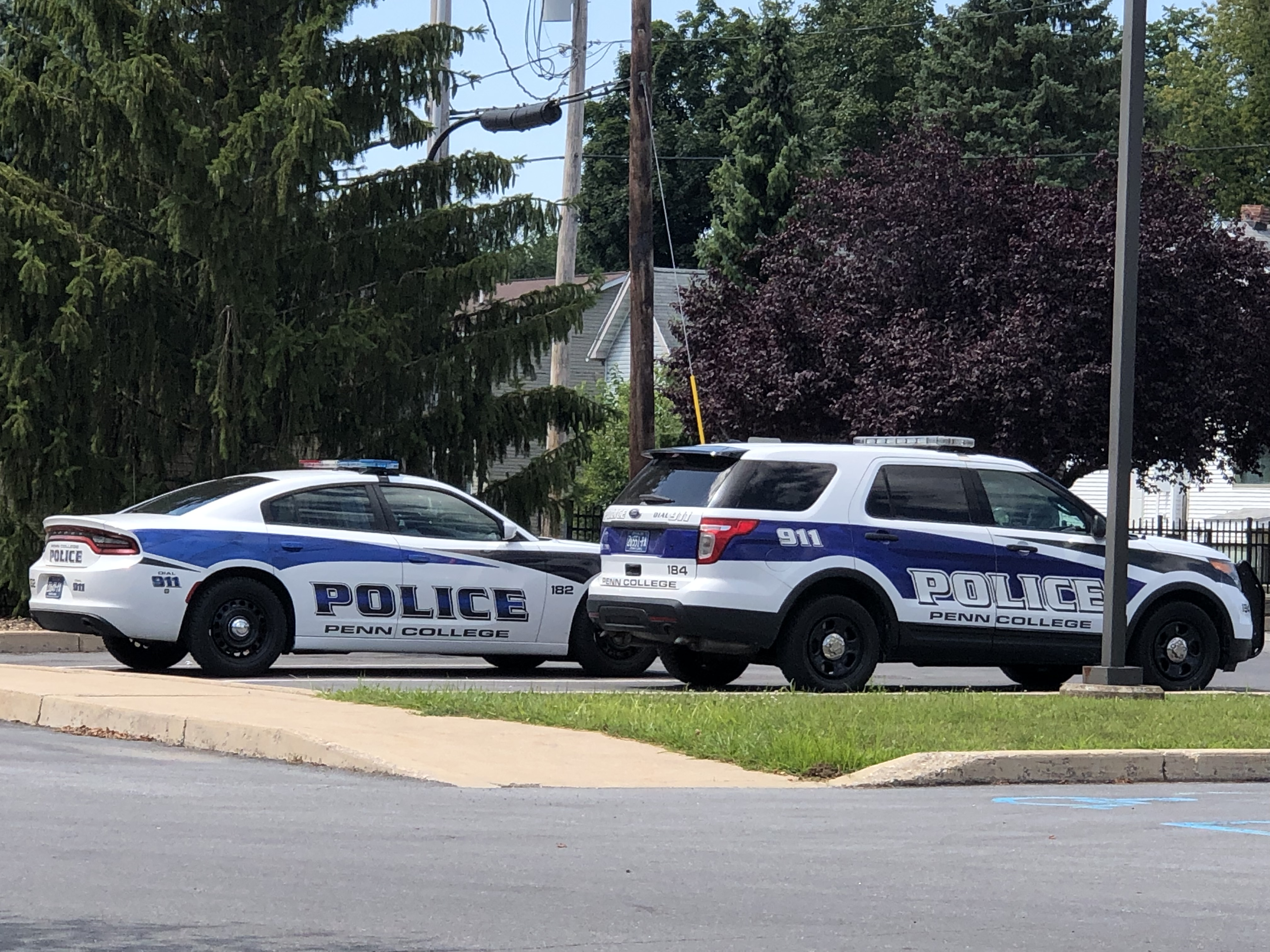 PCT Police